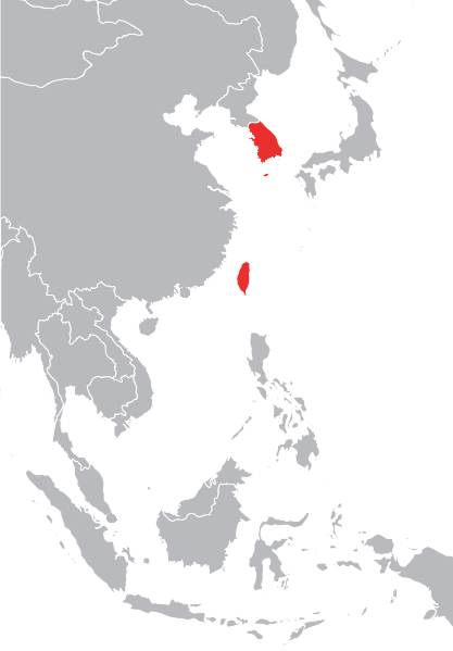 South korea and taiwan